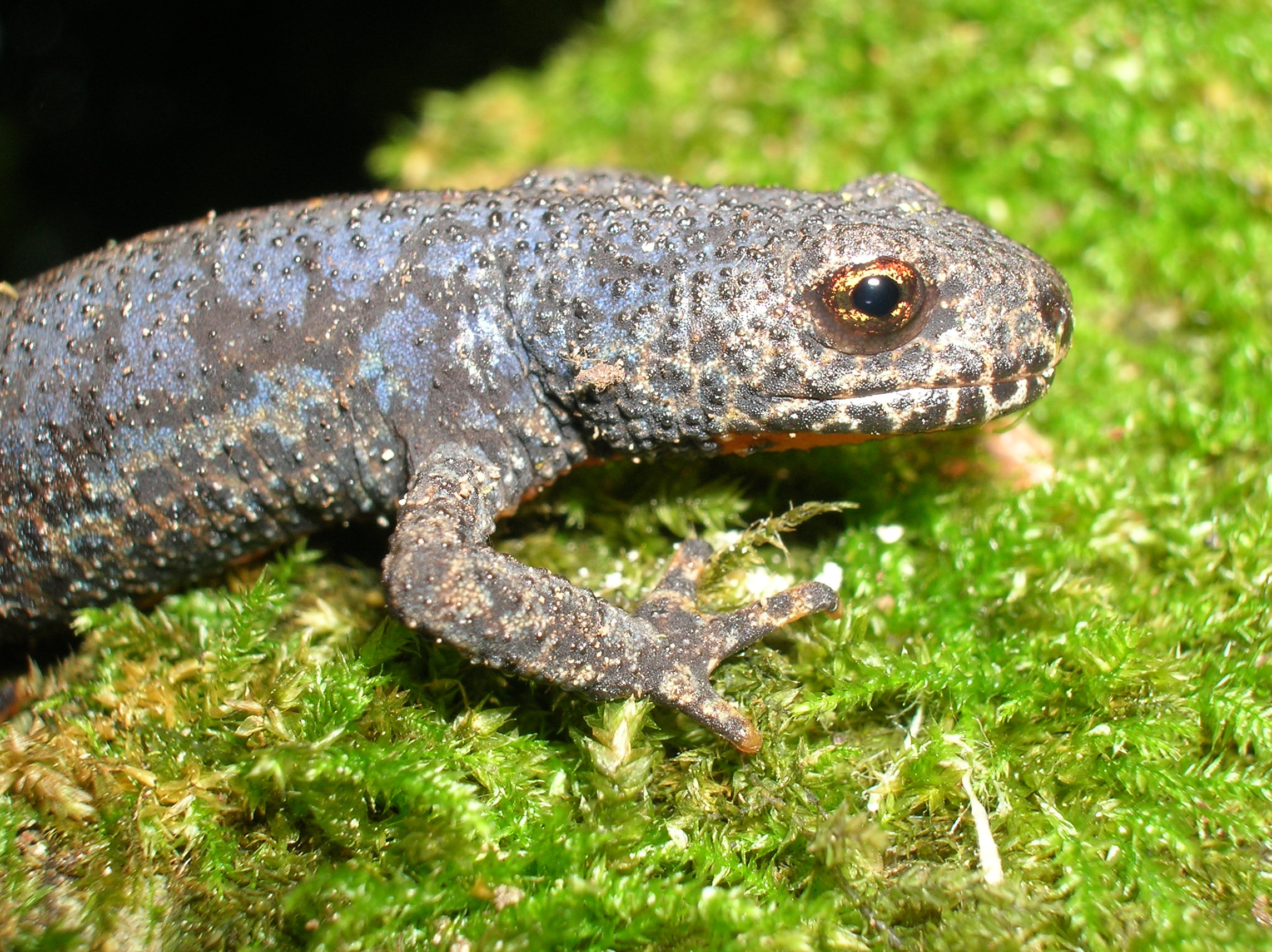 Adult Mesotriton alpestris Land phase Bunde Netherlands